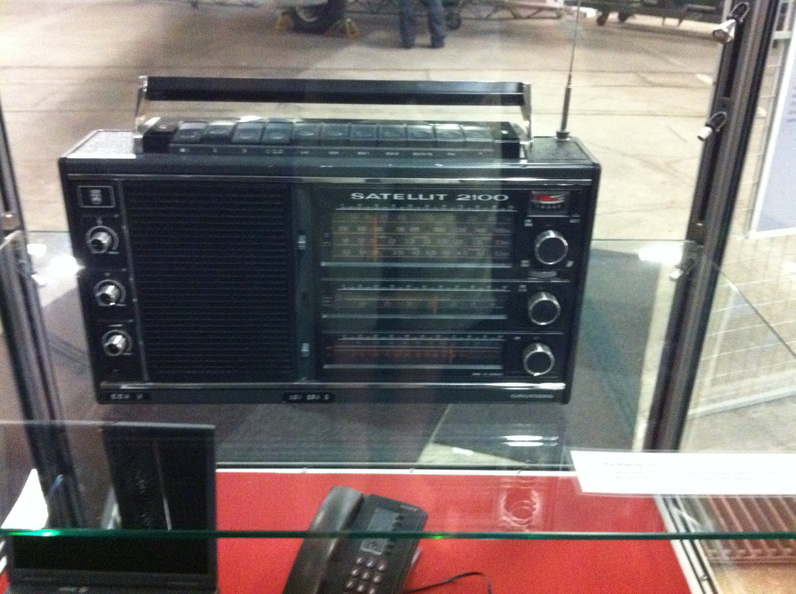 The Grundig Satellite 2100 shortwave radio through which the Swedish spy Stig Bergling received his orders from Moscow.